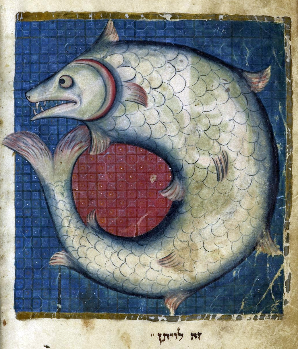 Leviathan. The Midrash considers Leviathan to be the most important of the three eschatological animals. Like the Ziz it is destined to be eaten by the righteous in paradise after the mortal combat in which it and Behemoth kill one another. So huge is Leviathan that its skin will be used by God to build tabernacles in which the most deserving among the righteous will sit to enjoy the meat of the three animals which the Midrash adds, are so pure that their meat is permitted, rewarding the righteous for denying themselves the pleasure of forbidden meat in this world. Leviathan is depicted here as a big fish with scales and fins, its mouth full of sharp menacing teeth. Its body forms a loop, the tail nearly touching the head. Illustration from the North French Hebrew Miscellany manuscript.